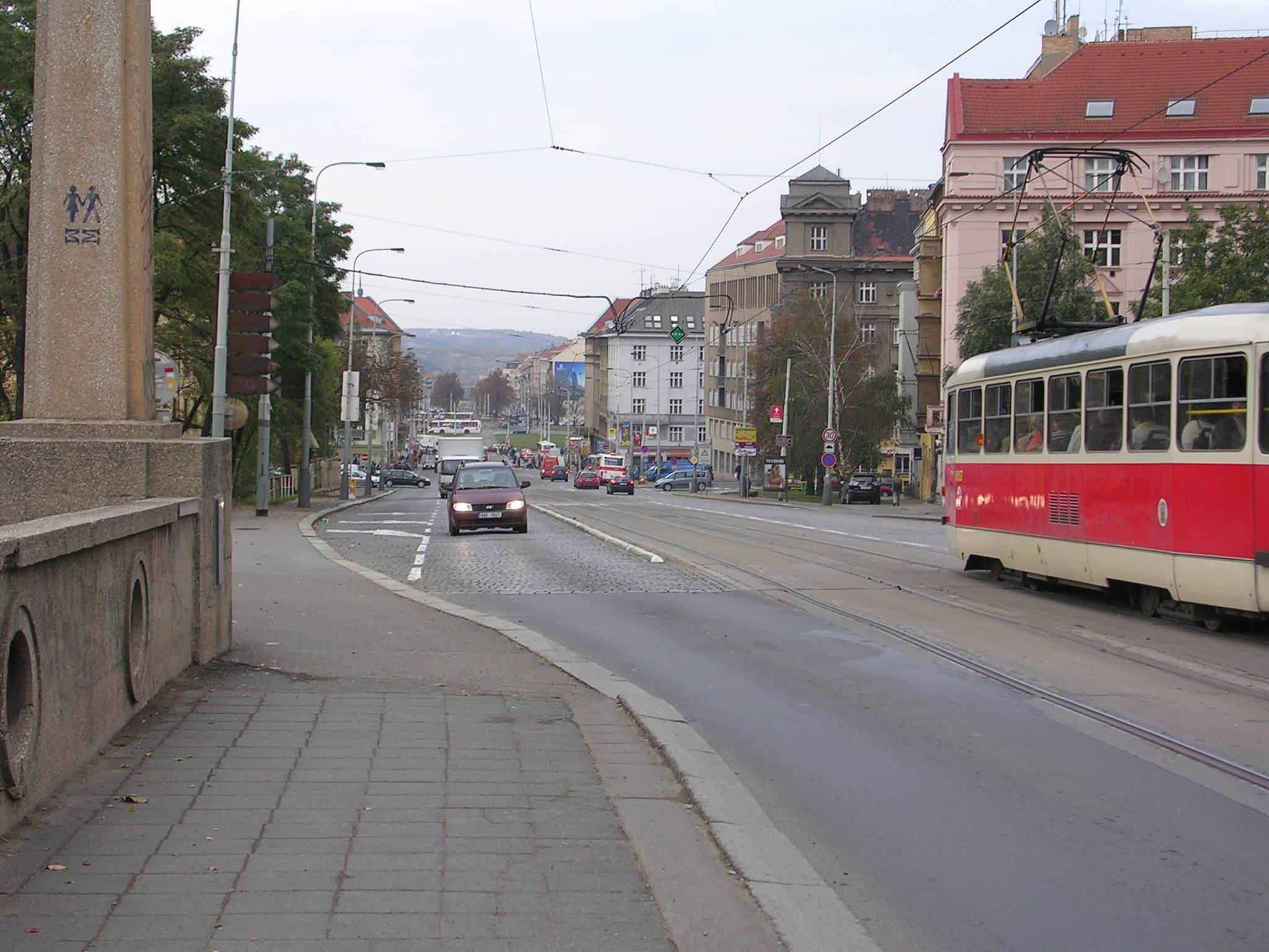 Dejvice, Prague, the Czech Republic. - OpenStreetMap(Info)